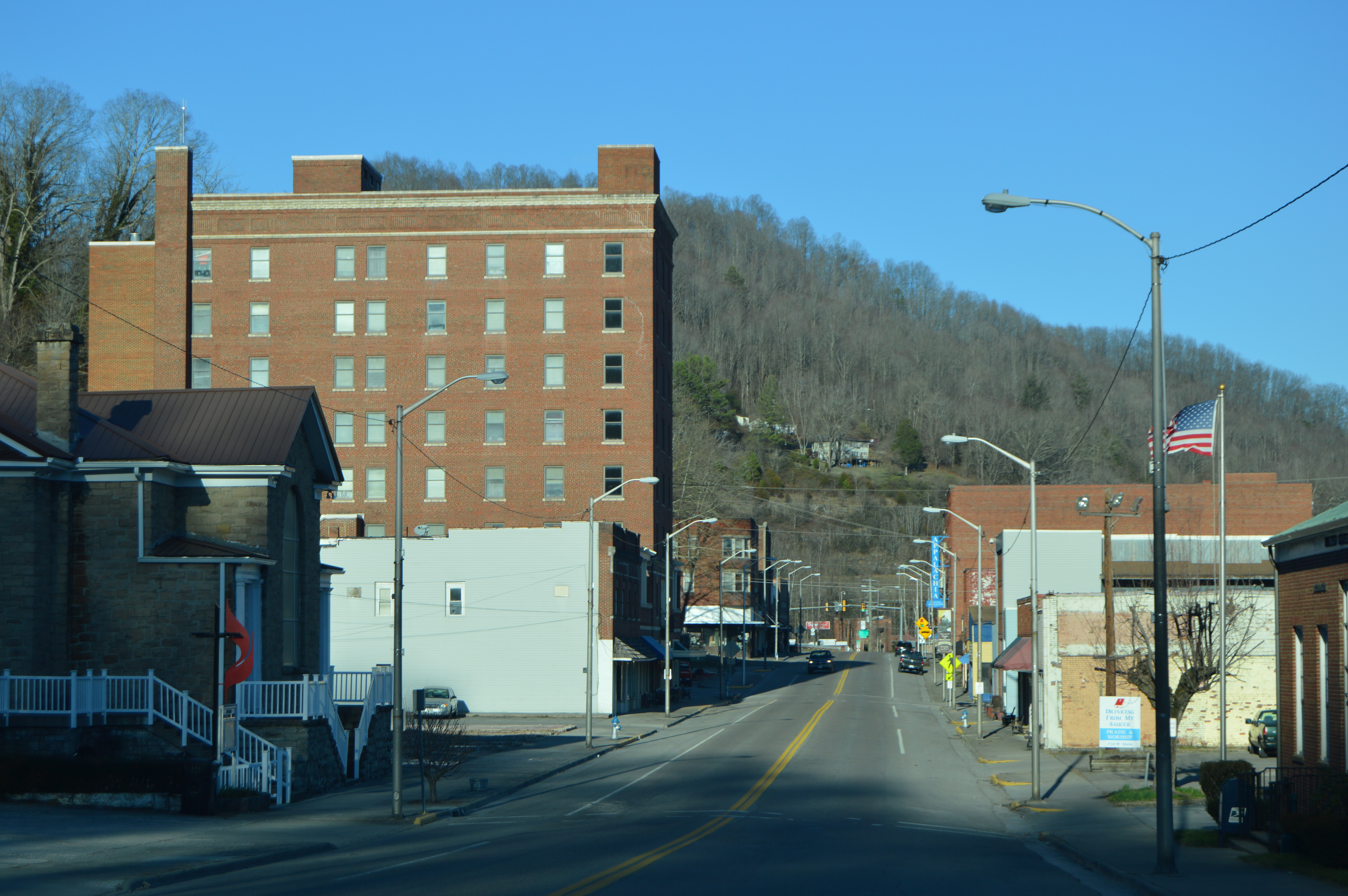 Buildings on Main Street, seen looking northeast from Kentucky Avenue, in downtown Appalachia, Virginia, United States.